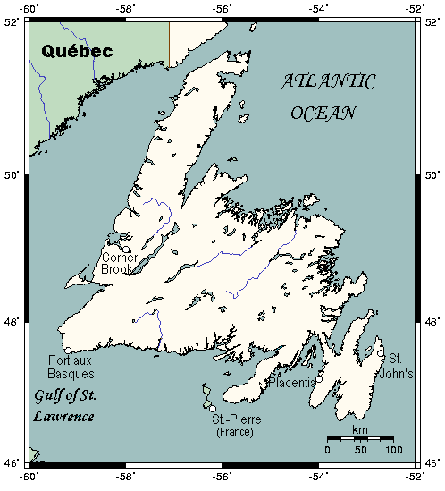 A map showing the Island of Newfoundland in the Canadian province of Newfoundland and Labrador.